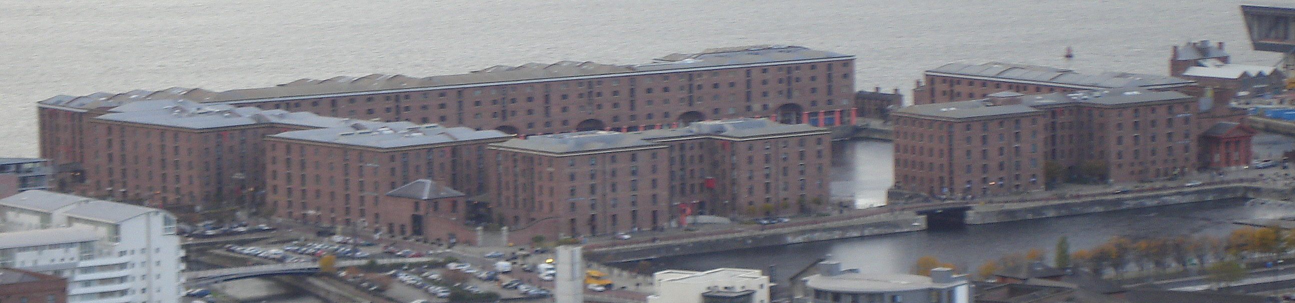 Image showing the Albert Dock from the top of the Anglican Cathedral